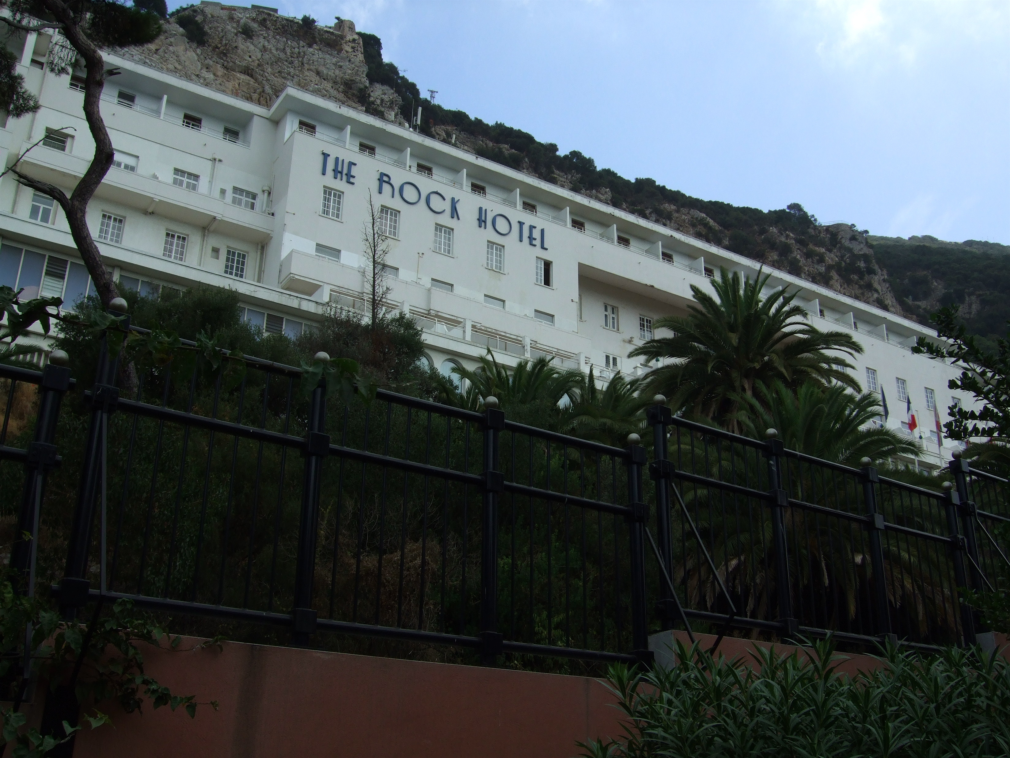 The Rock Hotel, Europa Road, Gibraltar. Gibraltar's most well-regarded hotel, though there are several others.